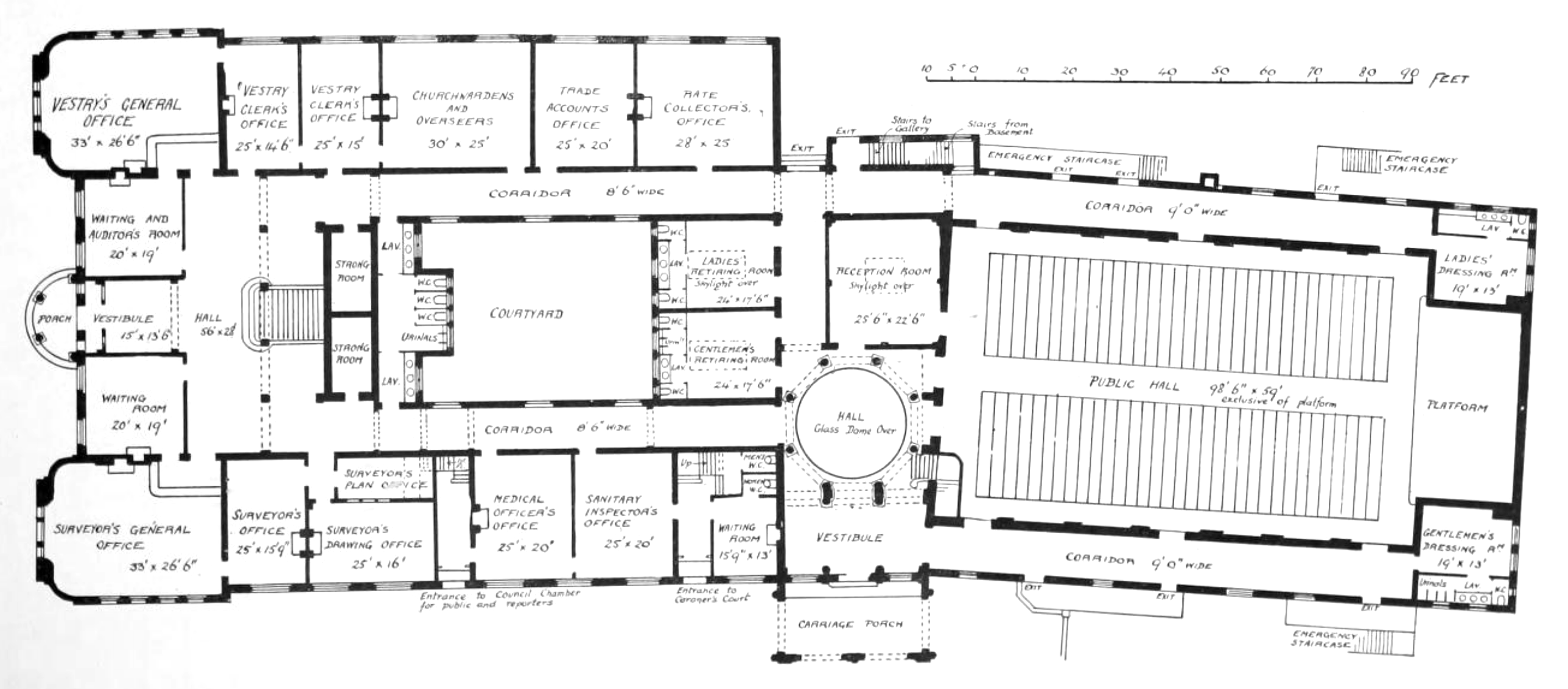 Battersea Town Hall ground floor plan, circa 1904